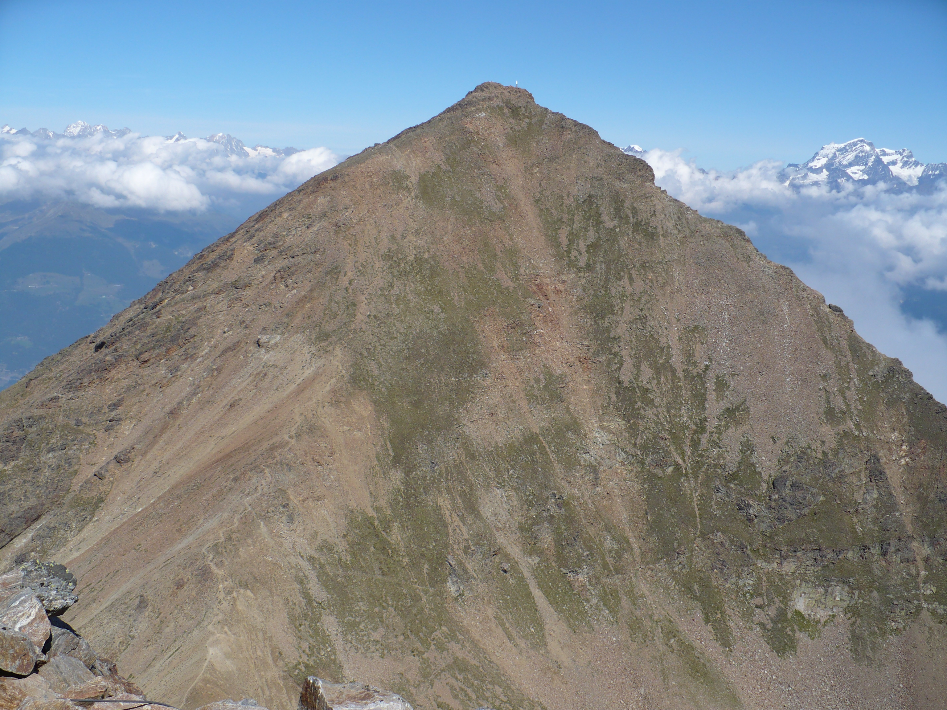 Becca di Nona - Graian Alps - Aosta Valley - Italy